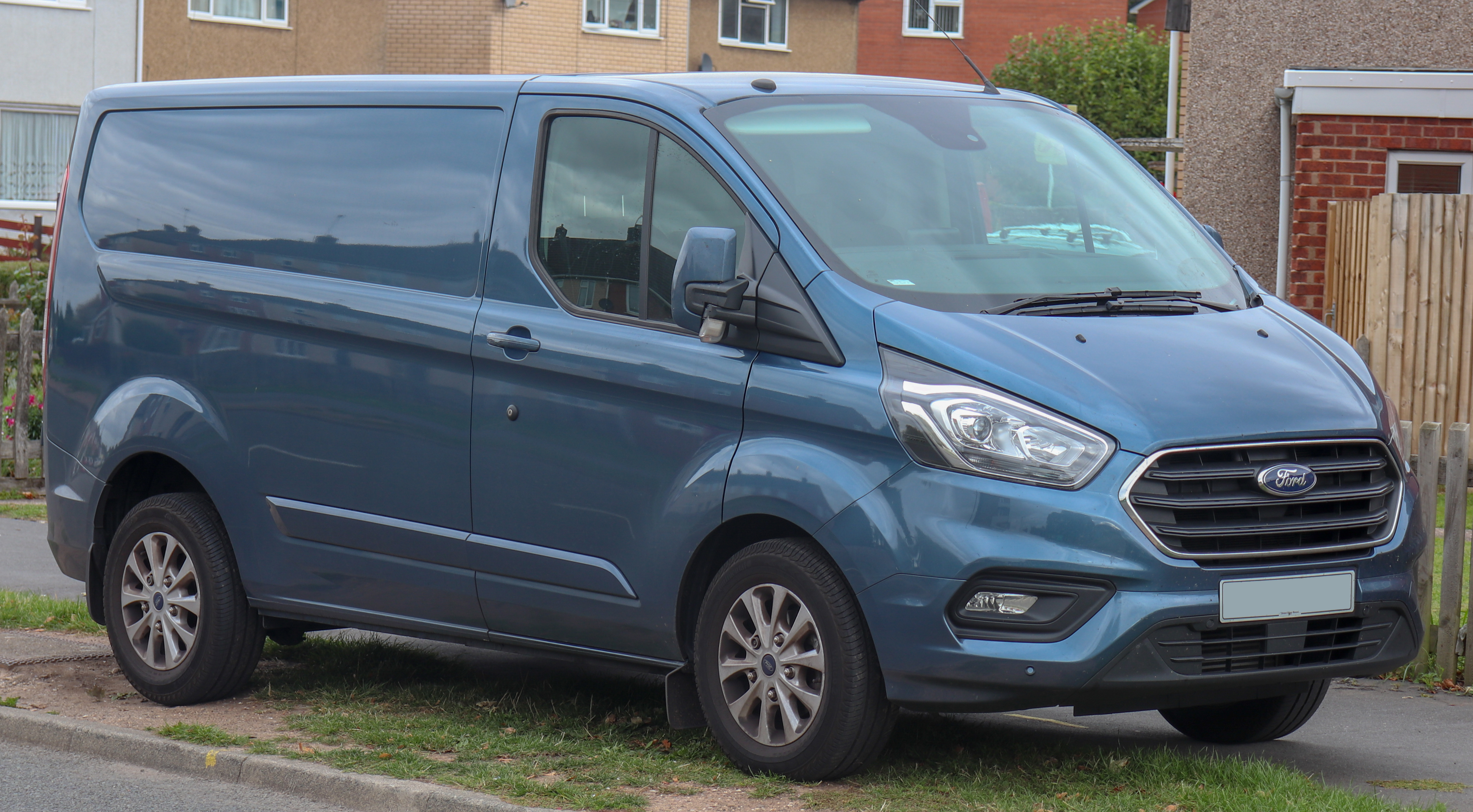 2018 Ford Transit Custom 280 Limited facelift 2.0 Front Taken in Whitnash